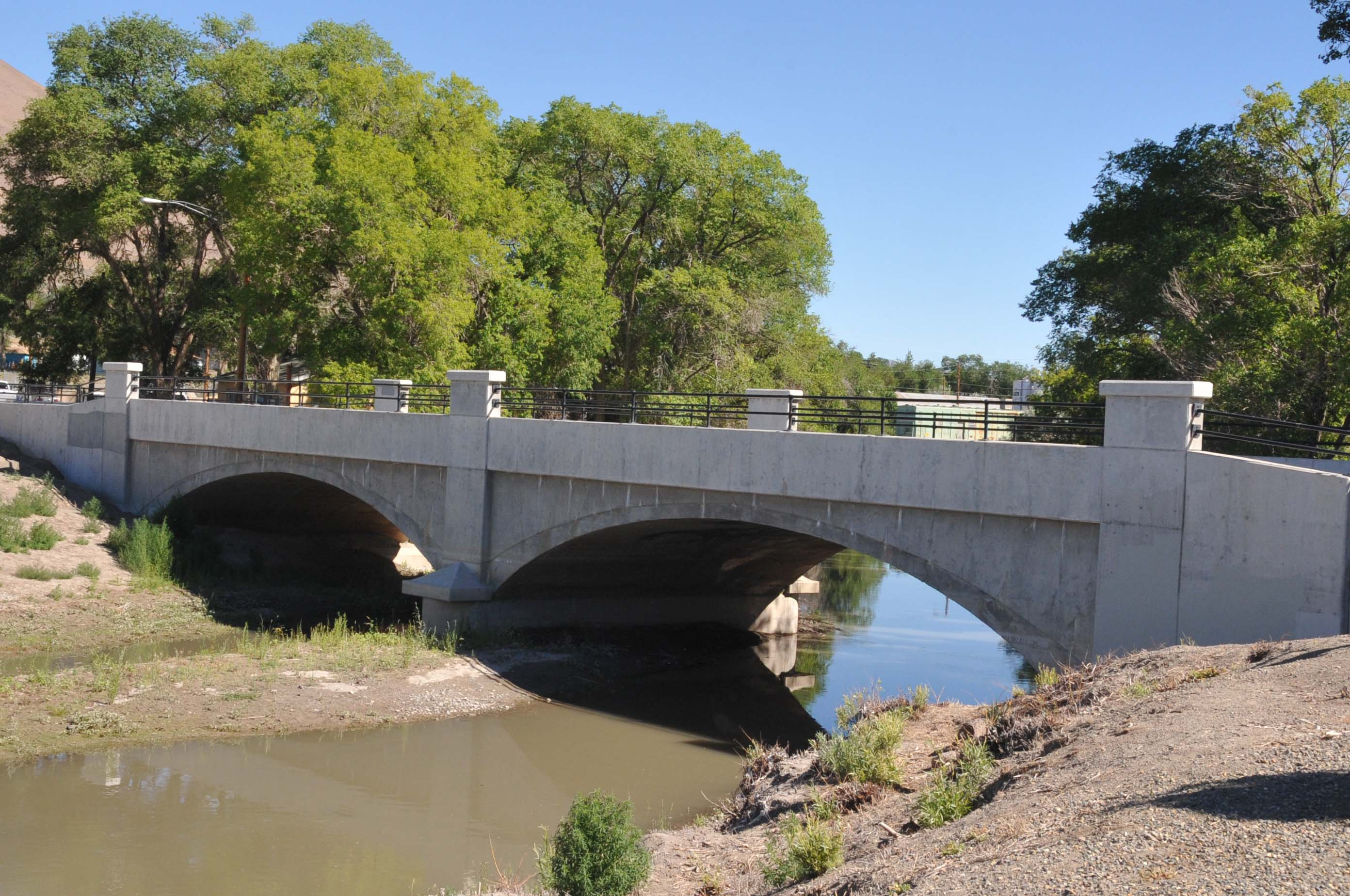 130’ LONG BUILT IN 1930 AND THE FIRST REINFORCED CONCRETE ARCHDECK BRIDGE IN THE COUNTY. IT IS ALSO ONE OF THE LAST PAIR TO SURVIVE IN NEVADA